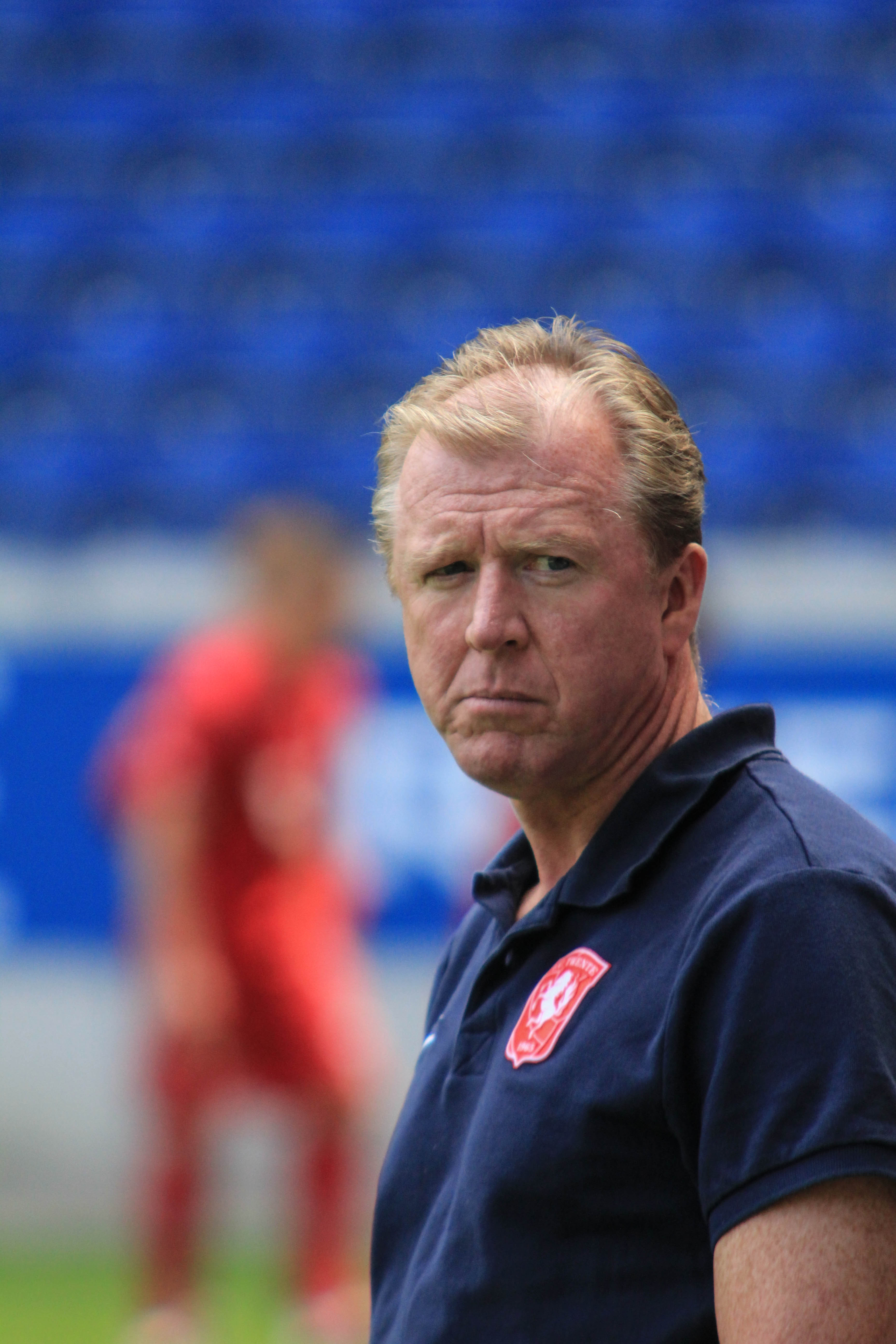 English football manager Steve McClaren, FC Twente